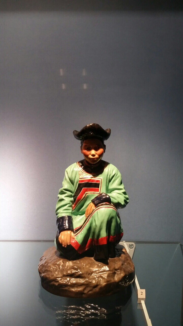 St.Petersburg. The Museum of the Imperial Porcelain Factory. Sculptures from the series "Peoples of Russia." "Great Russian Ryazan Governorate" (center). Models by P.P. Kamensky (1858-1922). Imperial Porcelain Factory, Russia. 1907-1917 gg. Porcelain, polychrome overglaze painting, gilding, silvering, platinum lustre, tooled.